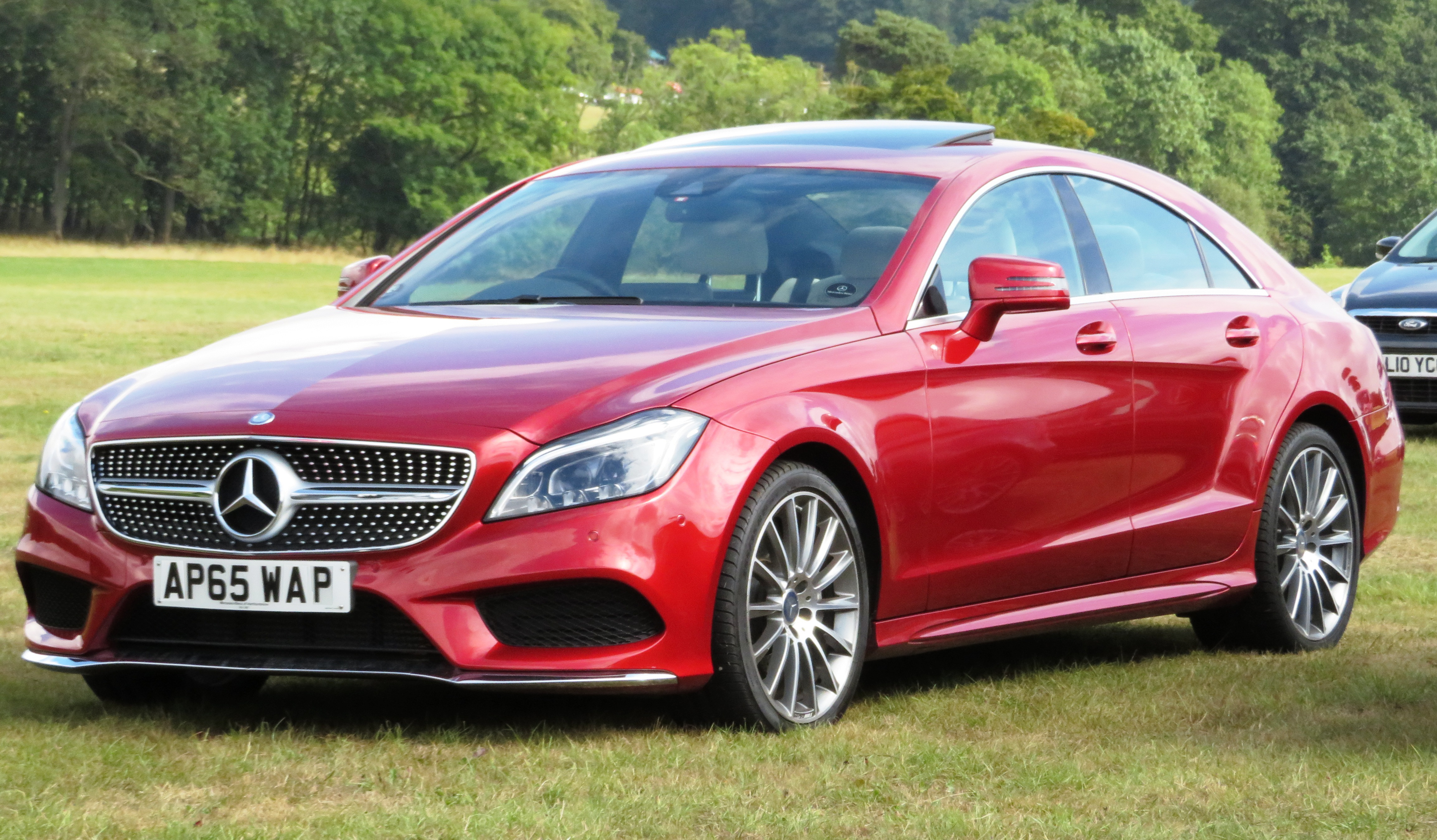 Mercedes-Benz CLS 350d (2016)